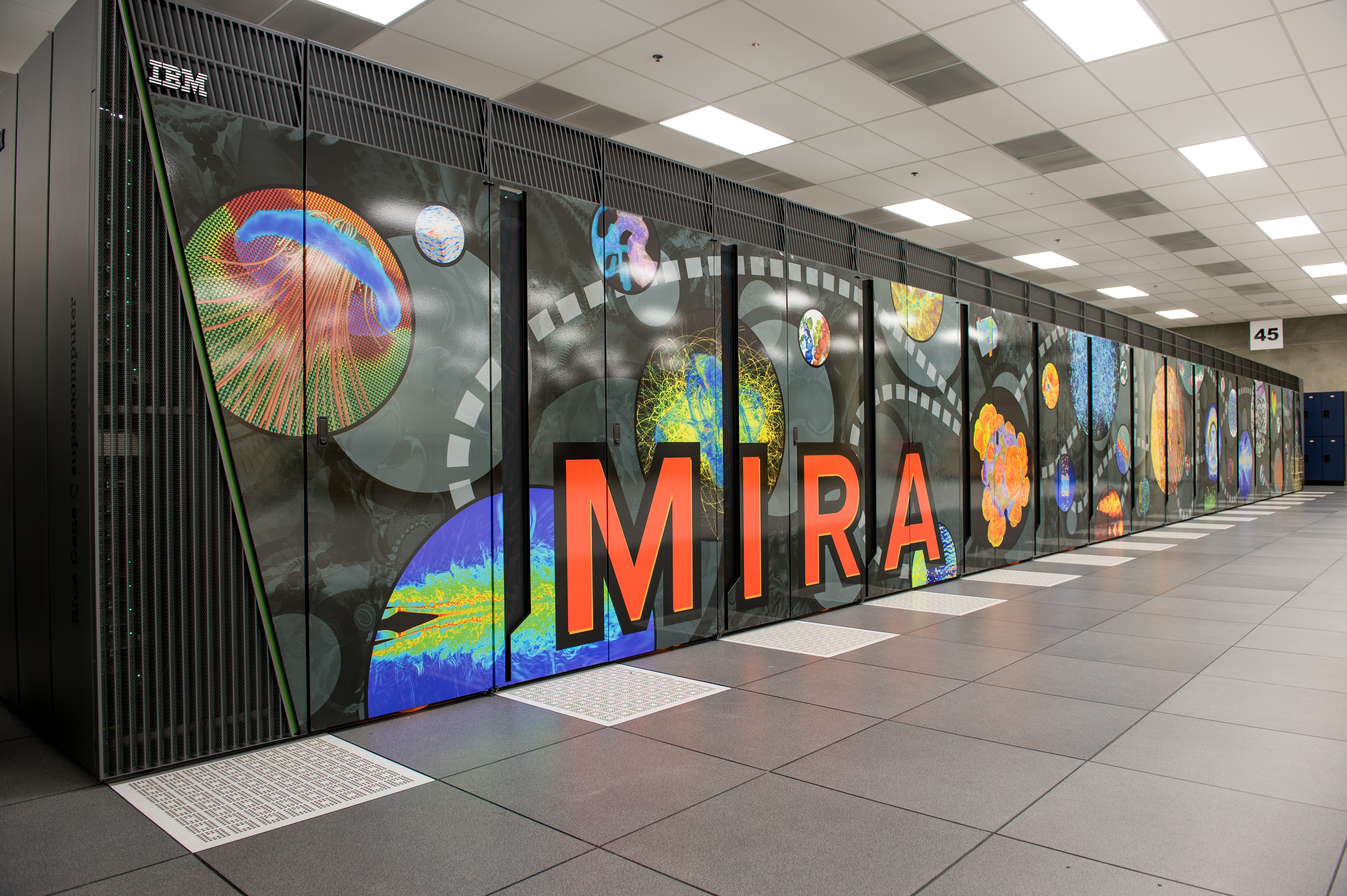 The IBM Blue Gene/Q installed at Argonne National Laboratory, near Chicago, Illinois, debuted as the third fastest supercomputer in the world. It is entirely devoted to scientific research.